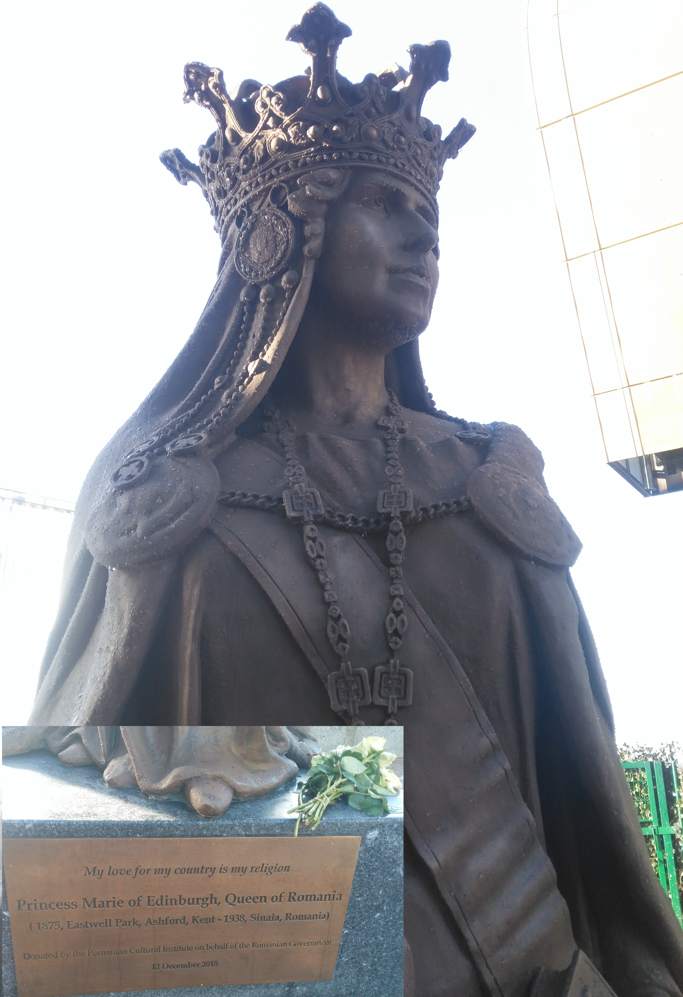 Celebrates Queen Marie's (Queen Victoria's granddaughter) birth at Eastwell Park, Ashford, Kent.